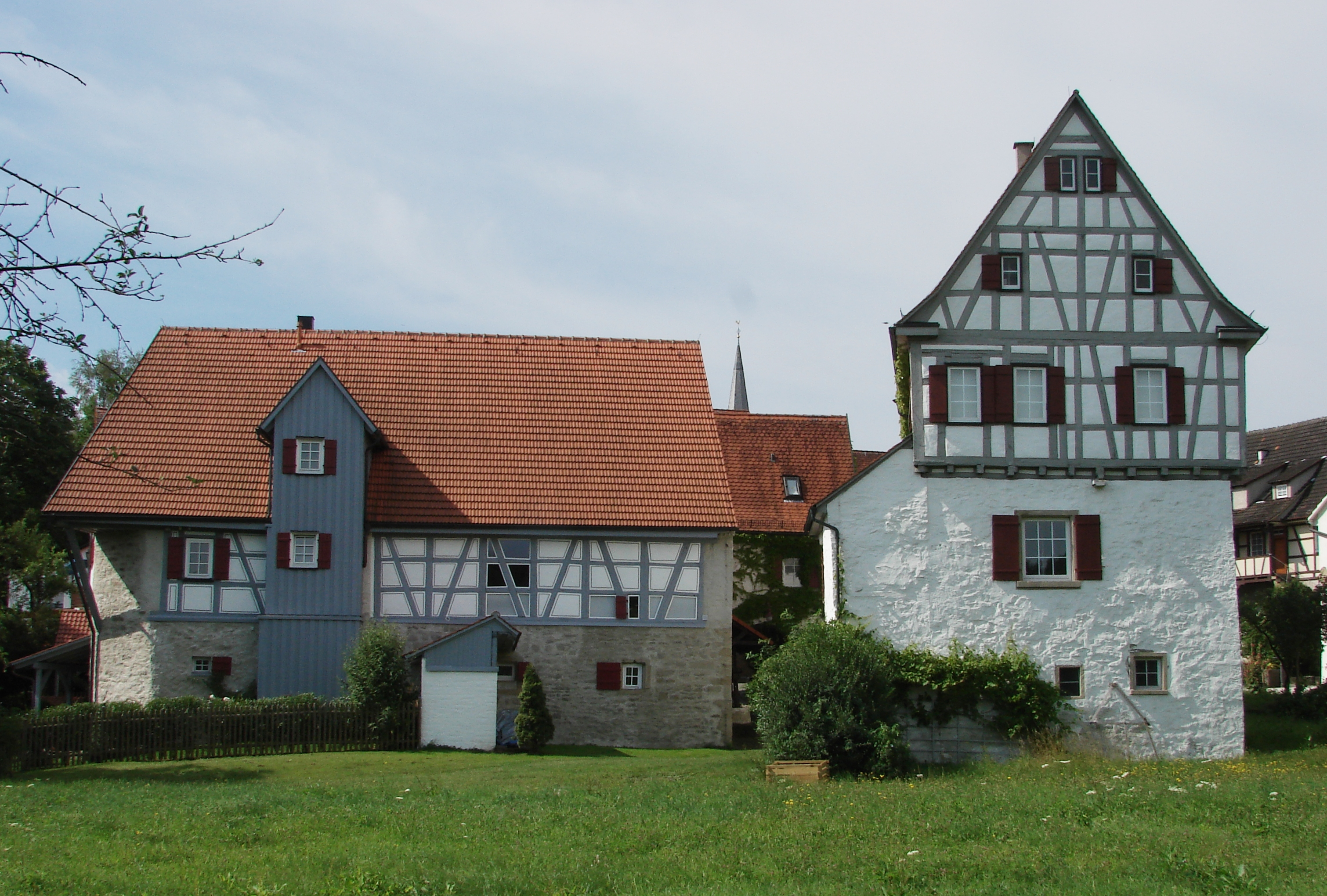 Freiberg am Neckar, Schlössle in the town part of Geisingen, originally dating from 1671